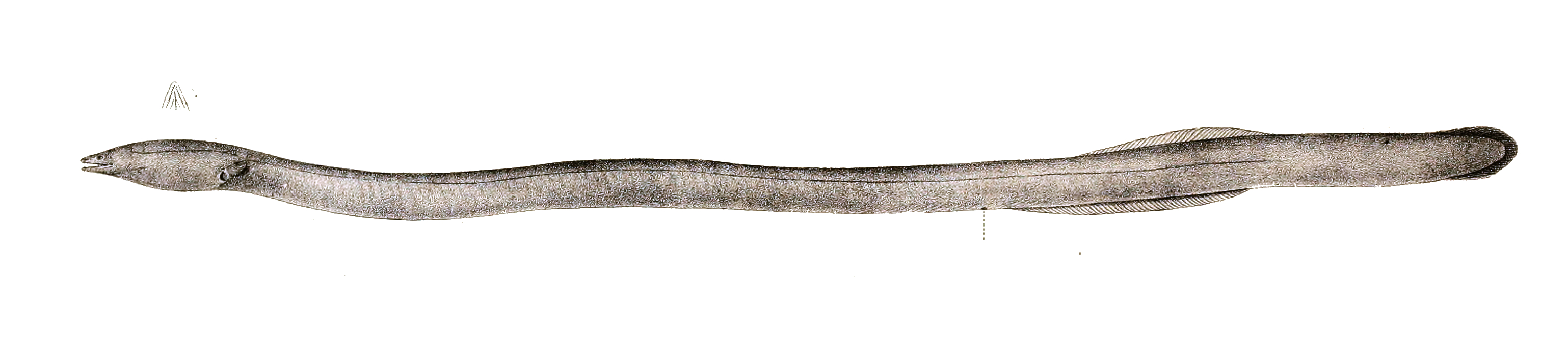 The species names / identity need verification - original names from plate are included here. The original plates showed the fishes facing right and have been flipped here. Moringua raitaborua